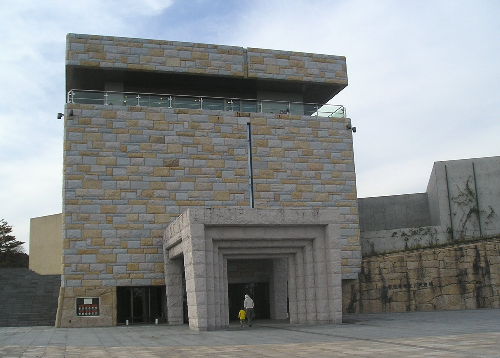 Saitobaru Archaeology Museum of Miyazaki Prefecture